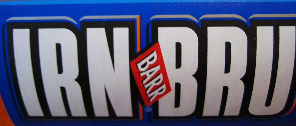 Logo of Irn Bru